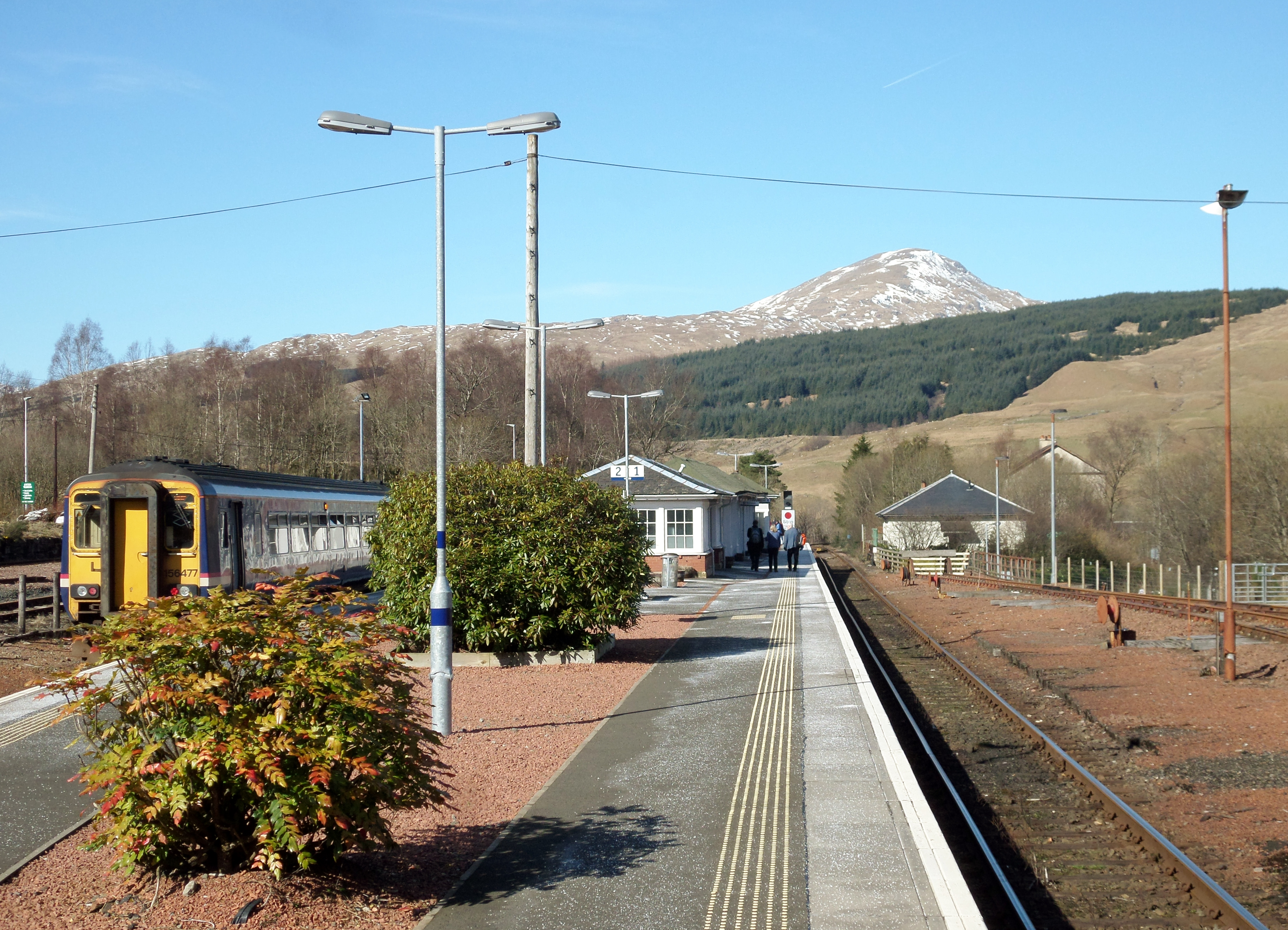 Crianlarich Station, view north towards Tyndrum, Scotland. Ex-NBR and LMS station on the West Highland line, Glasgow - Craigendoran - Fort William - Mallaig & Oban, The mountain on the right is Beinn Chaluim.